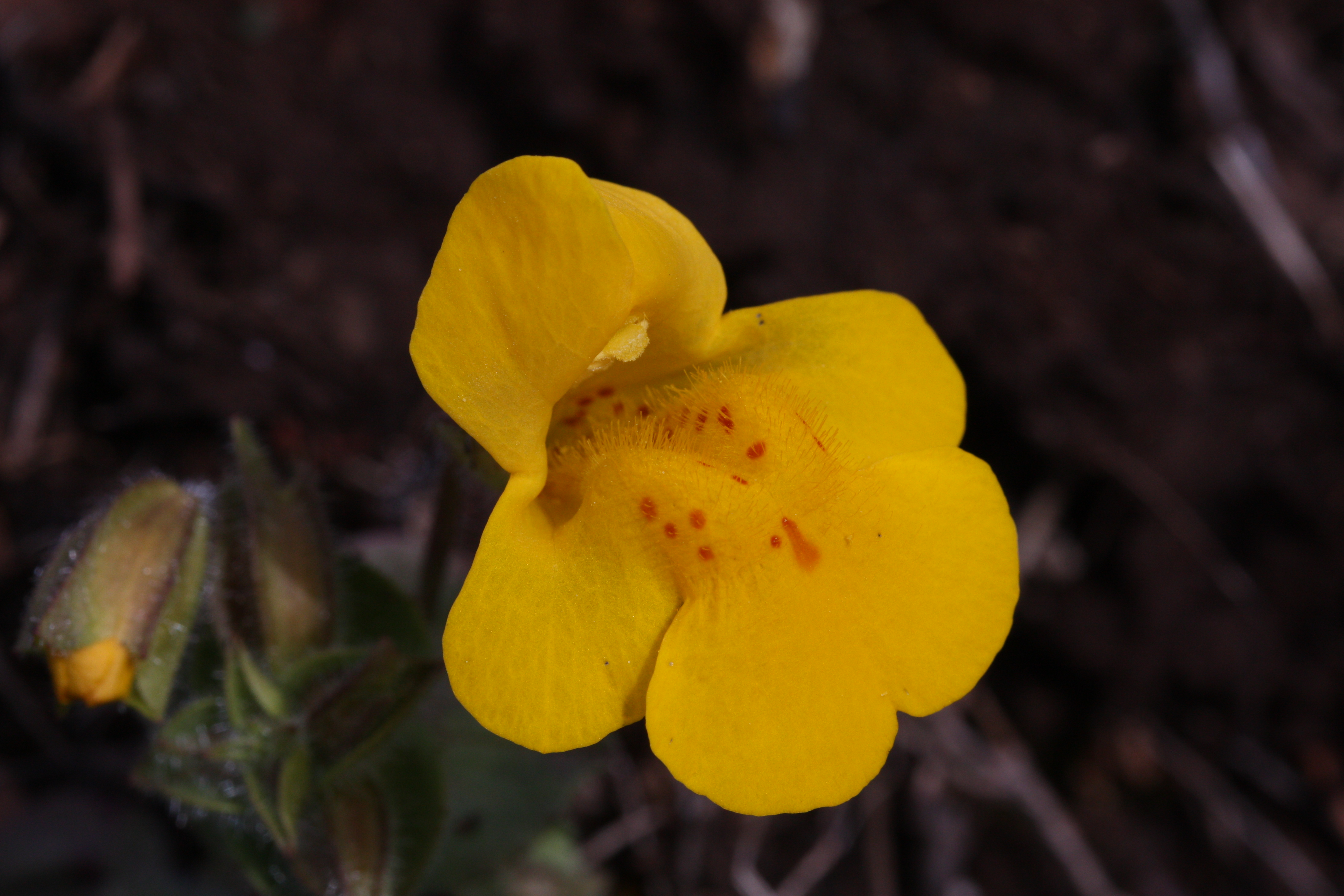 Seep Monkey-flower